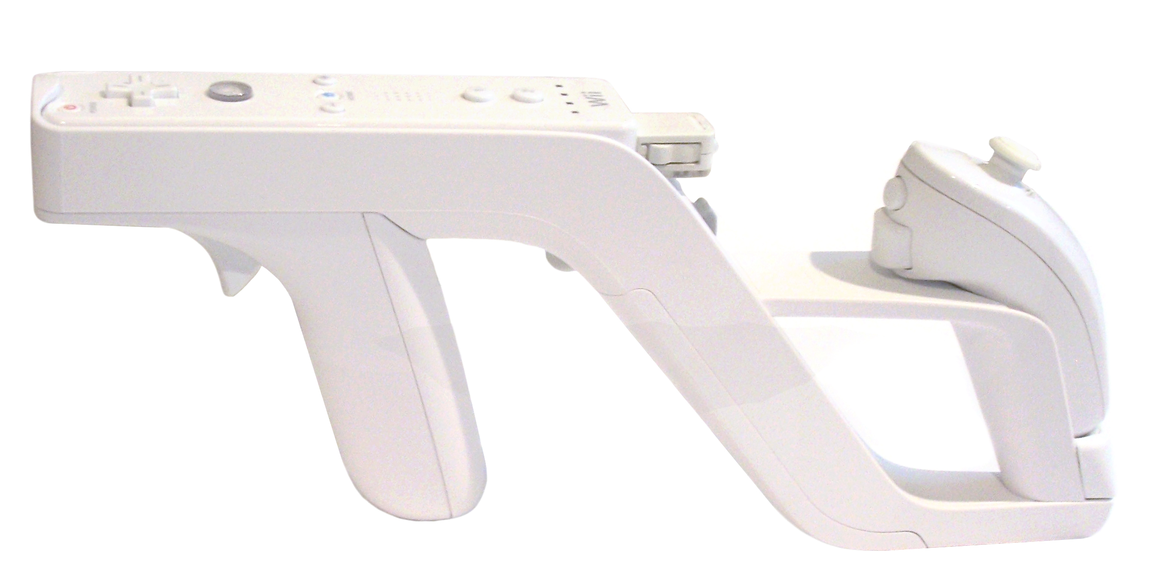 Picture of a Wii Zapper with Wii Remote and Nunchuck